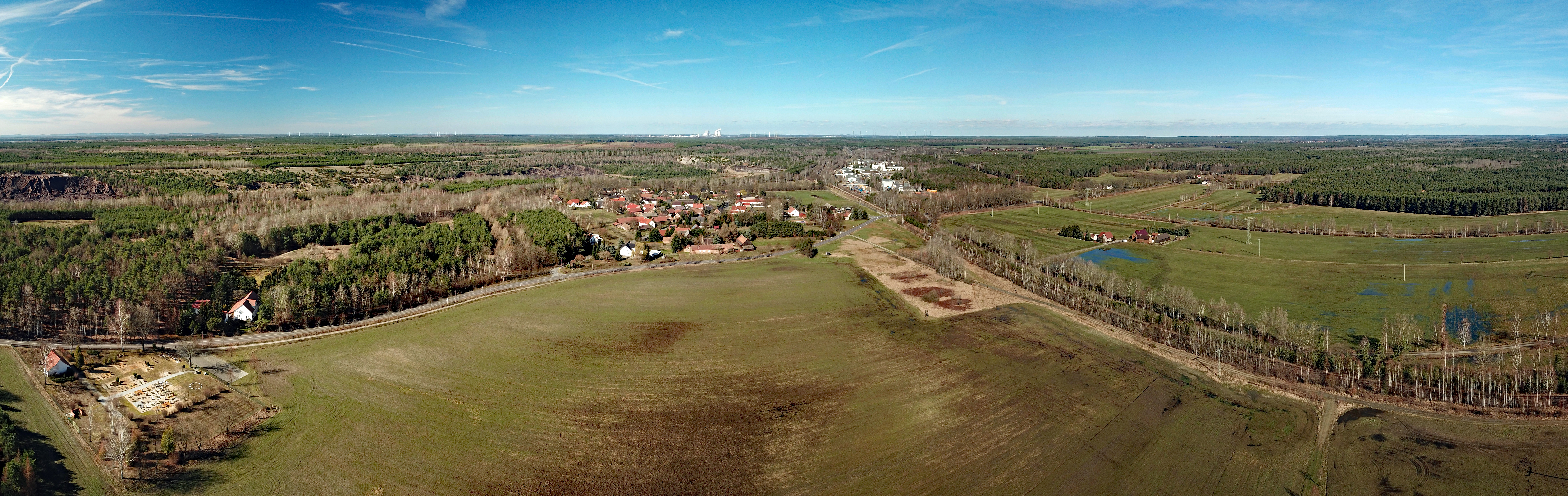 Mühlrose (Trebendorf, Saxony, Germany) Hornjoserbsce: Powětrowy wobraz Miłoraza, nalěwo kěrchow